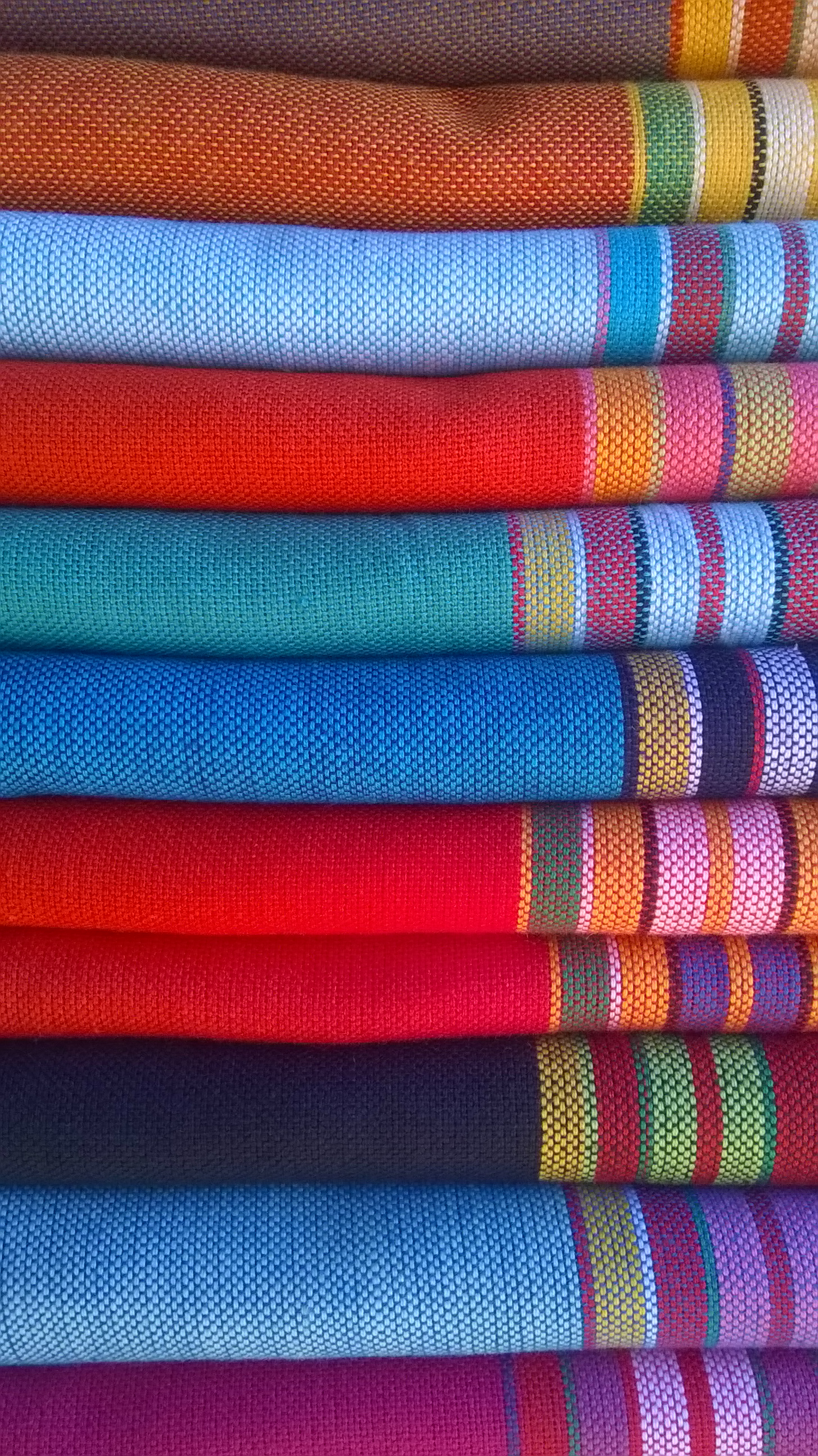 This is an image of Cultural Fashion or Adornment from Kenya